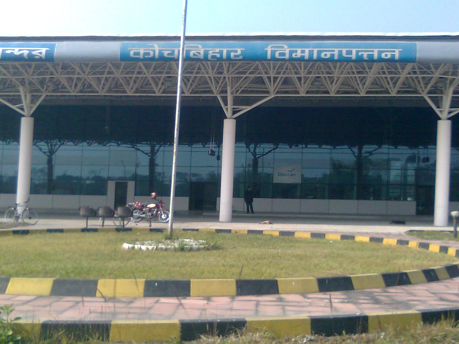 COB airport